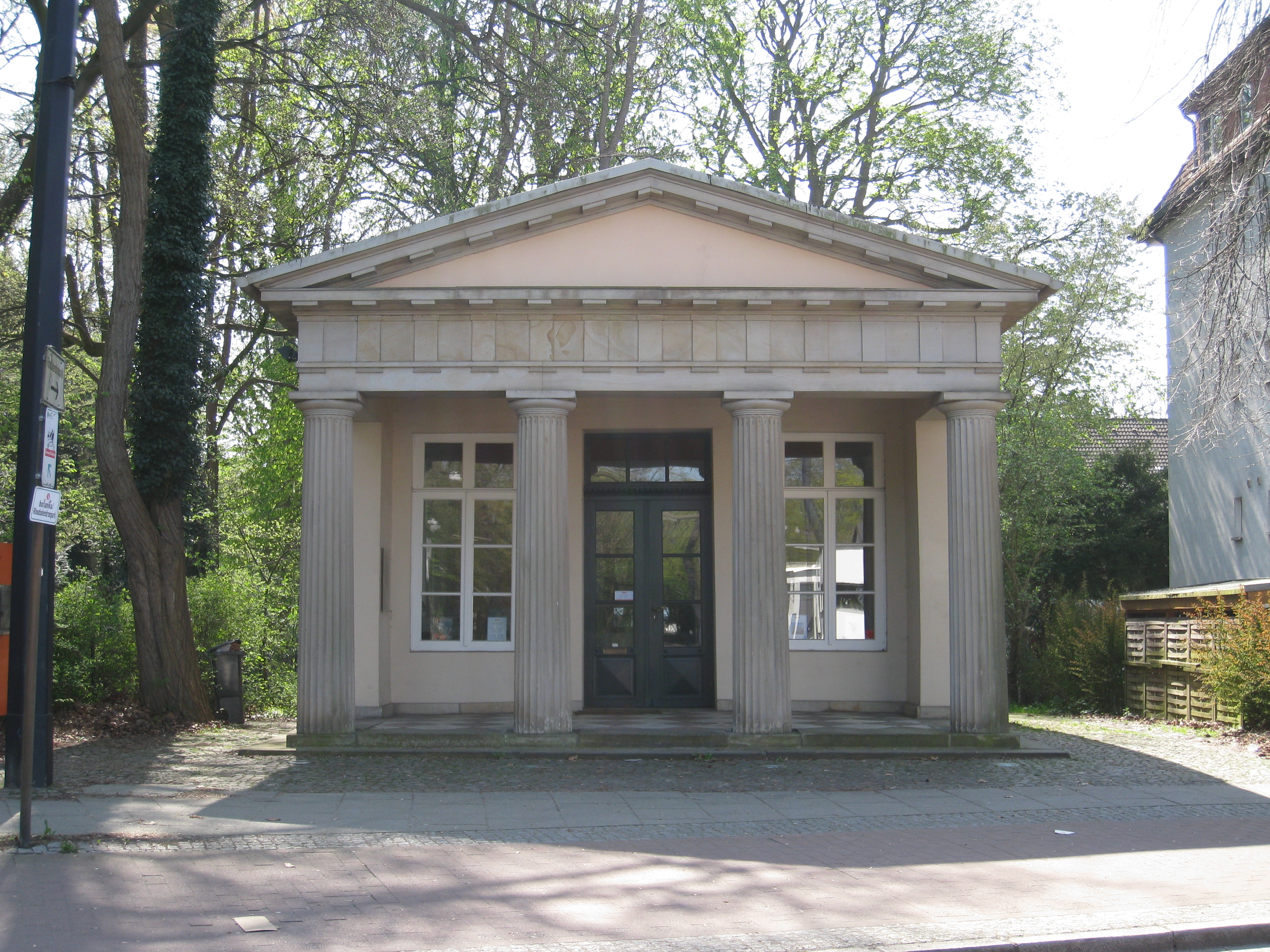 The former Teehaus (“teahouse”) or Freundschaftstempel (“temple of friendship”) of Gut Rosenthal in Bremen Horn-Lehe, Germany (Schwachhauser Heerstraße / Horner Heerstraße). Built in 1830 in neoclassical style by Jacob Ephraim Polzin for Everhard Delius.